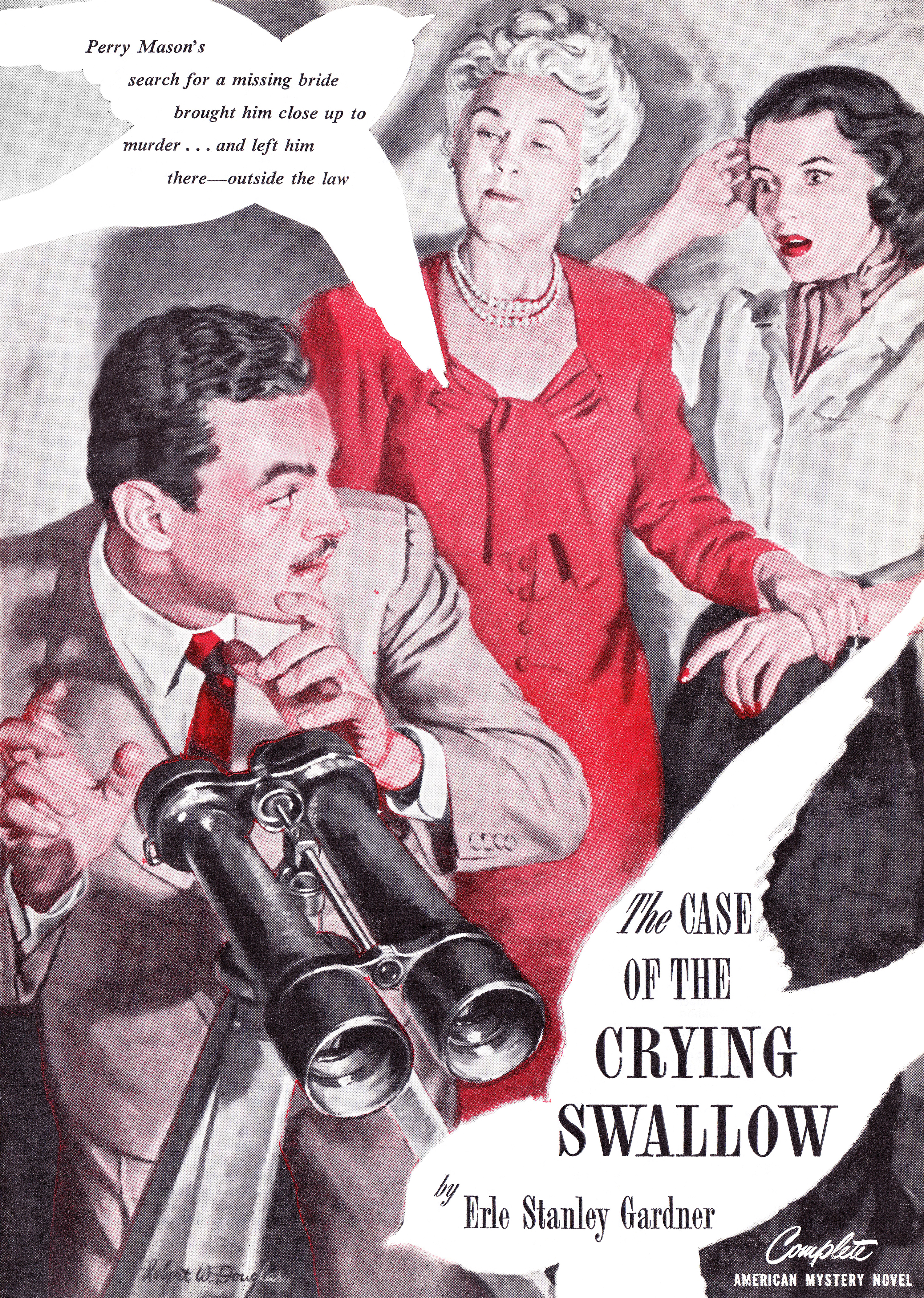 Illustration from The American Magazine printing of "The Case of the Crying Swallow", a Perry Mason short story by Erle Stanley Gardner